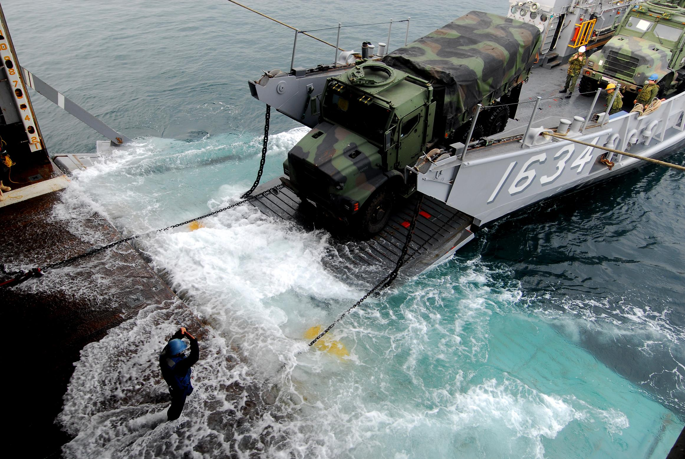 SEA OF JAPAN (Nov. 15, 2007) Sailors from amphibious transport dock ship USS Juneau (LPD 10) perform a stern gate mairige with a landing craft utility to off load two, seven-ton trucks from Juneau during a joint training exercise with the Republic of Korea. Juneau is the Navy's only forward deployed amphibious assault ship and is part of the Essex Amphibious Ready Group forward deployed out of Sasebo, Japan. U.S. Navy photo by Mass Communication Specialist 2nd Class David Didier (Released)